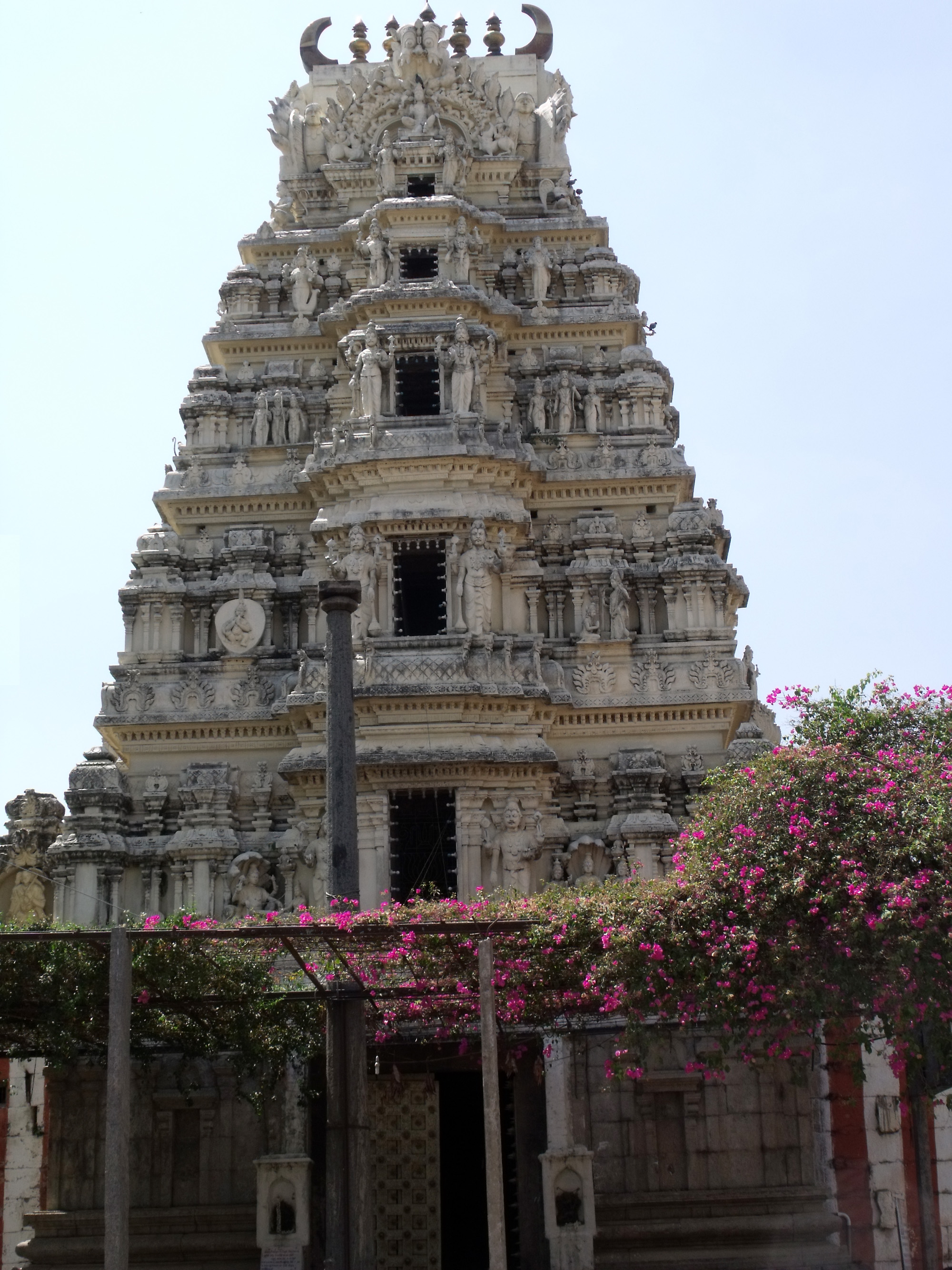 Main entrance of the temple, located at Dodda Mallur village in Channapatna, Karnataka.